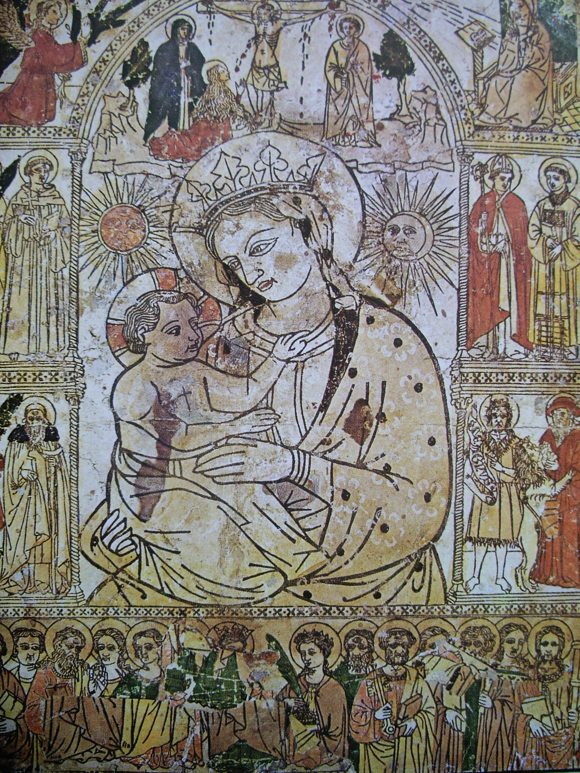 Madonna of the Fire (Madonna del Fuoco) is an early Italian devotional print, displayed in a school in Forli, Italy starting in 1425. It survived the 1428 fire that destroyed the school, and was subsequently venerated and moved to the city's cathedral. It is a hand-colored woodcut, and depicts annunciation and crucifixion scenes, as well as various saints.